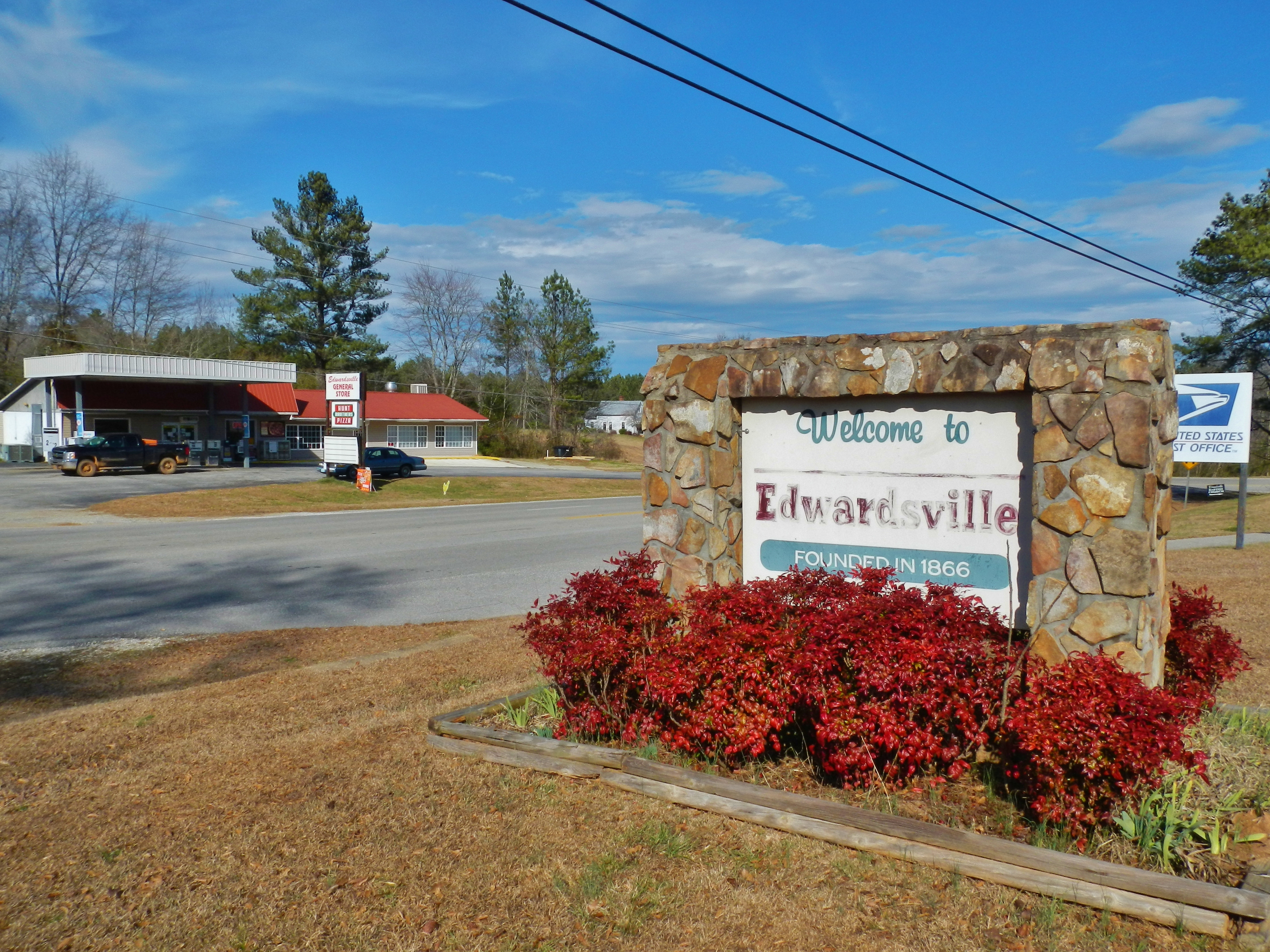 This is a photograph of Edwardsville, Alabama